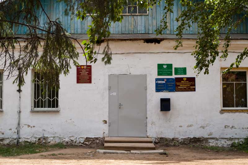 Atryakle office